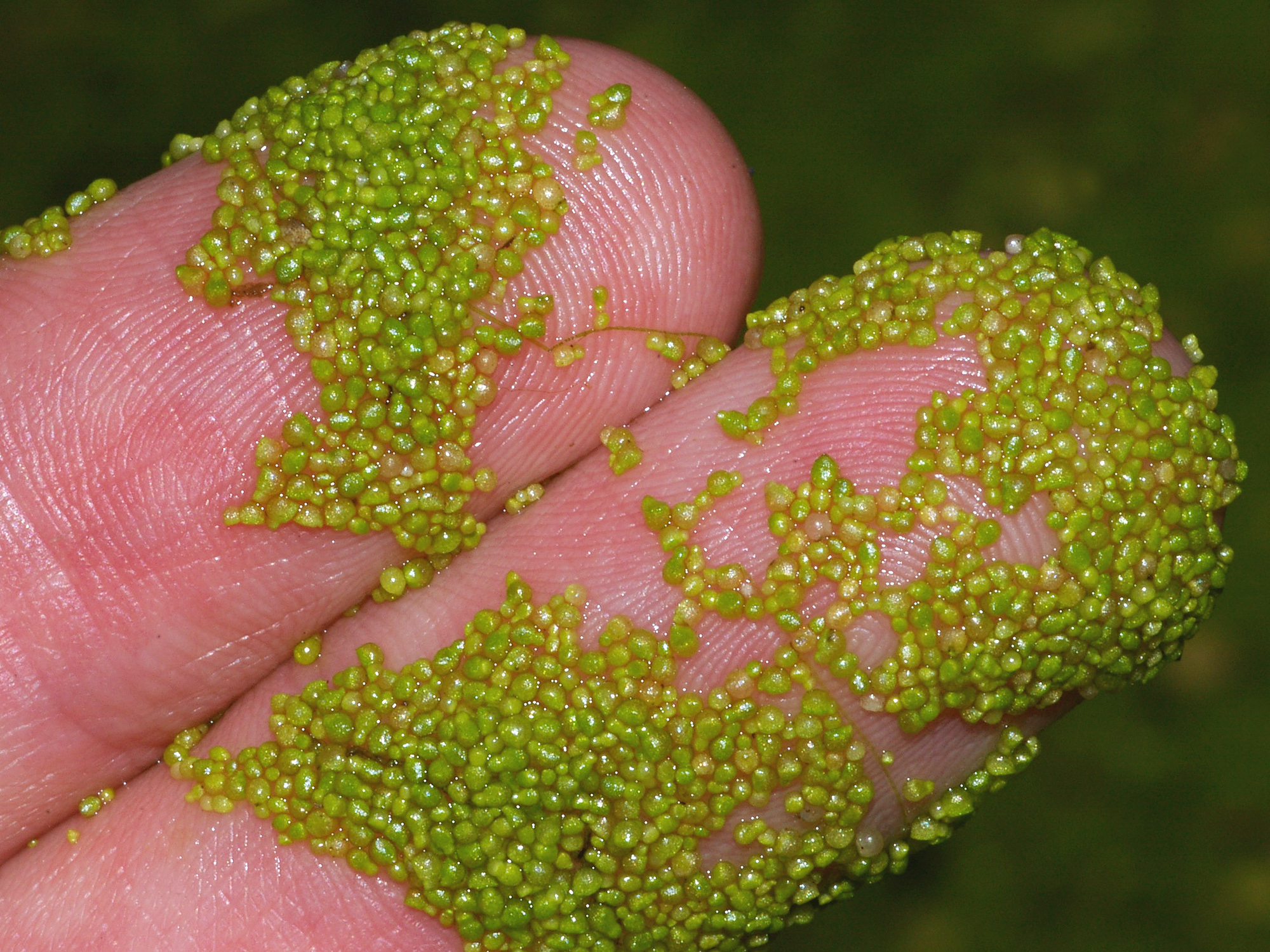 The smallest species of vascular plants in Europe – Spotless watermeal, Wolffia arrhiza – on human fingers. Every single speck of less than 1 mm length is an individual plant. (Worldwide, only a few other species of the genus Wolffia might be somewhat smaller.)